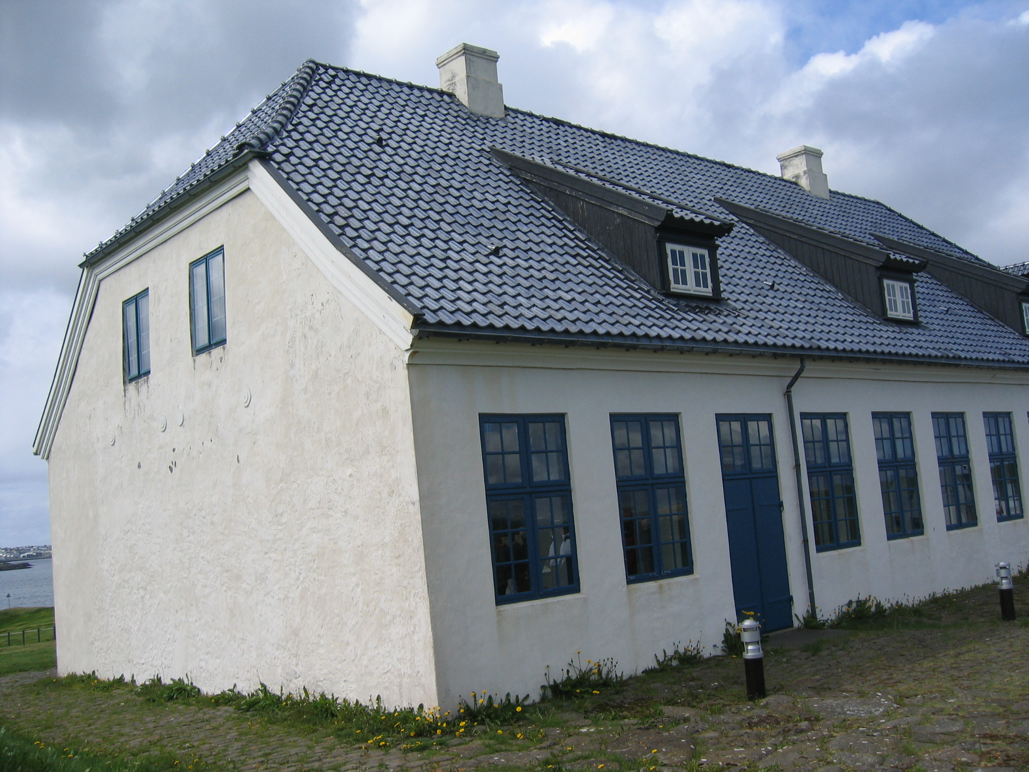 House in the island Viðey.photo taken by Salvör